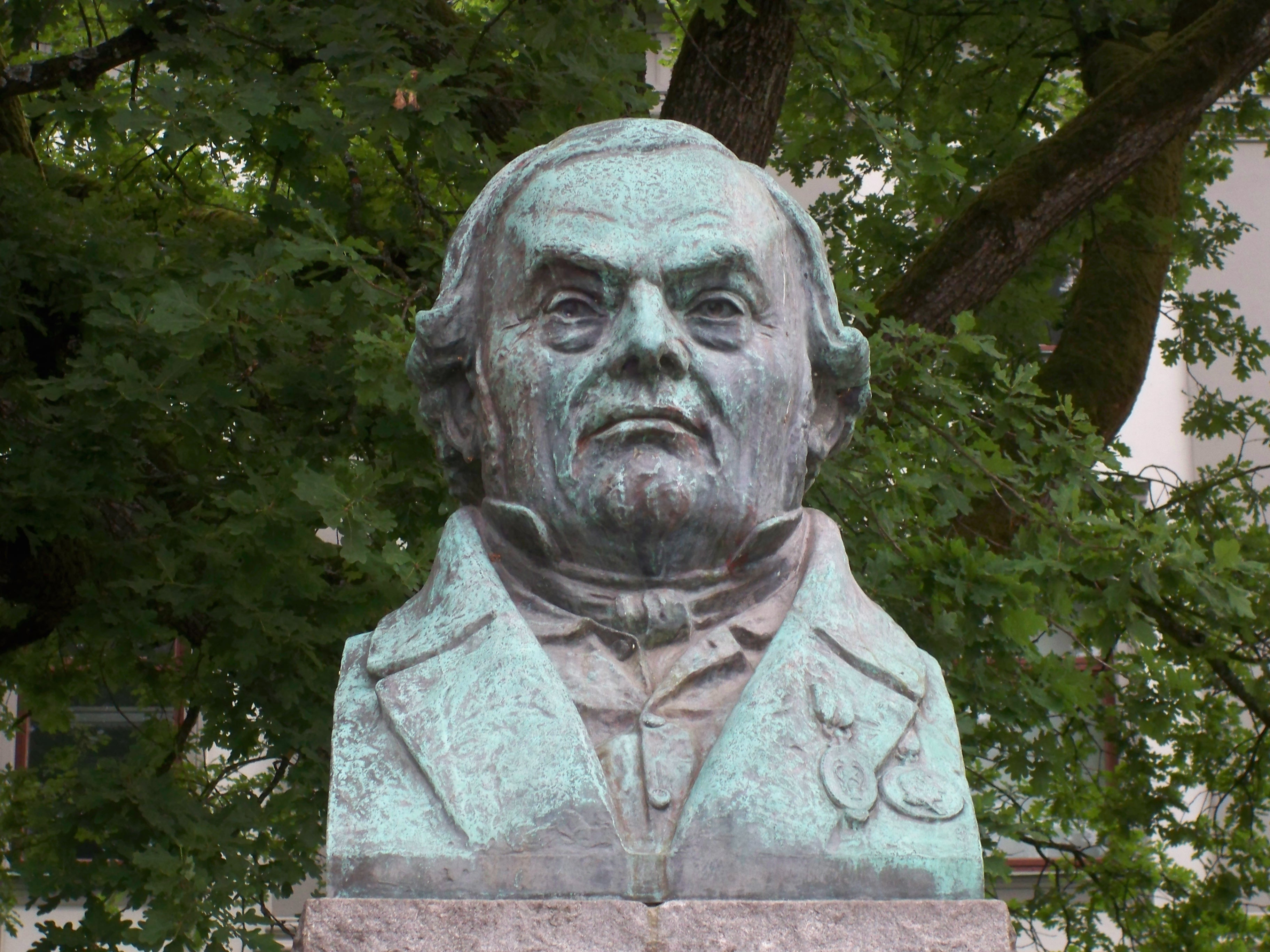 Bust of Sven Erikson, who started the first Swedish mechanical weaving mill in 1834. It was made by the Swedish sculptor Anders Wissler in 1913, and is placed at the technical high-school Sven Eriksongymnasiet in Borås, Sweden.